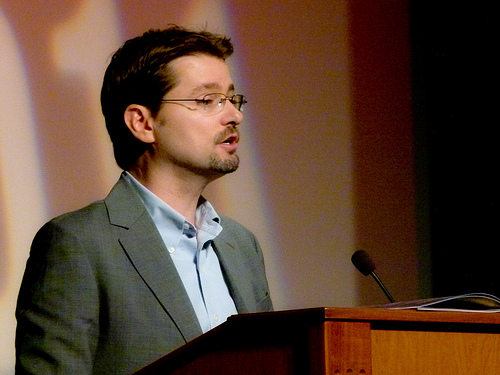 D.J. Grothe speaking at The Amazing Meeting Las Vegas 2011